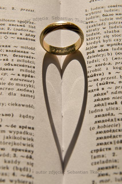 Non-cardioid heart curve as a shadow of wedding ring on an open book